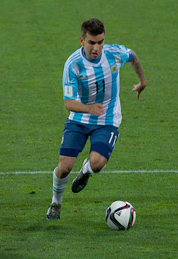 Argentina v Austria during the Under 20 World Cup in Wellington, New Zealand. The 0-0 draw sent Austria through to the group stage and sent Argentina home.